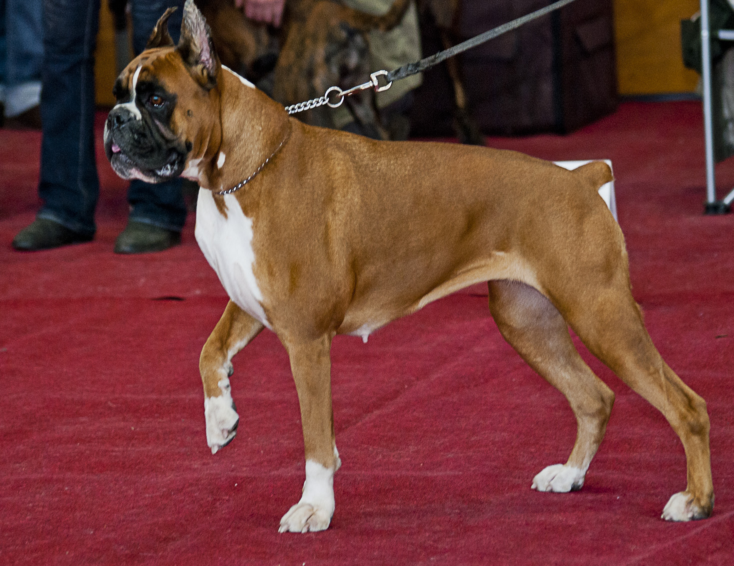 Boxer during International Dogs Show in Katowice, Poland.